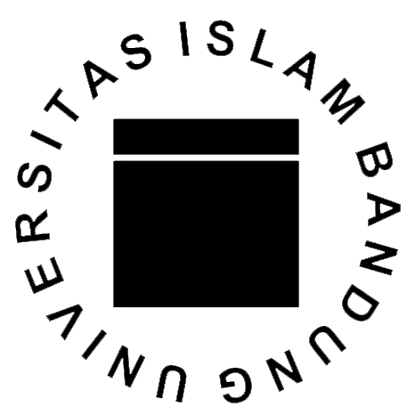 Based on the Decree of the Management Board of Unisba Foundation Number: 37 / P-Y-Unisba / SK / 2-2018 on Ratification of Statute of Bandung Islamic University in 2018.